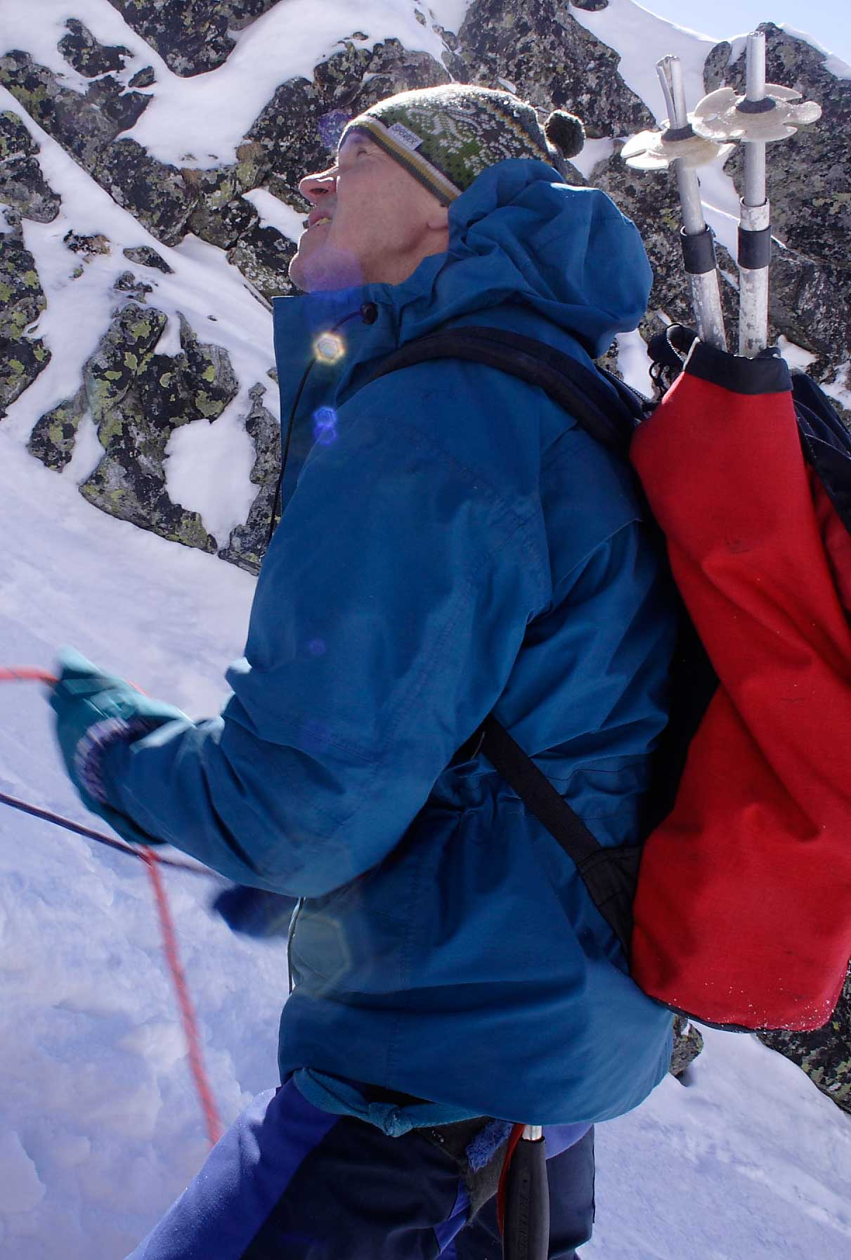 Czech mountaineer Leopold Páleníček